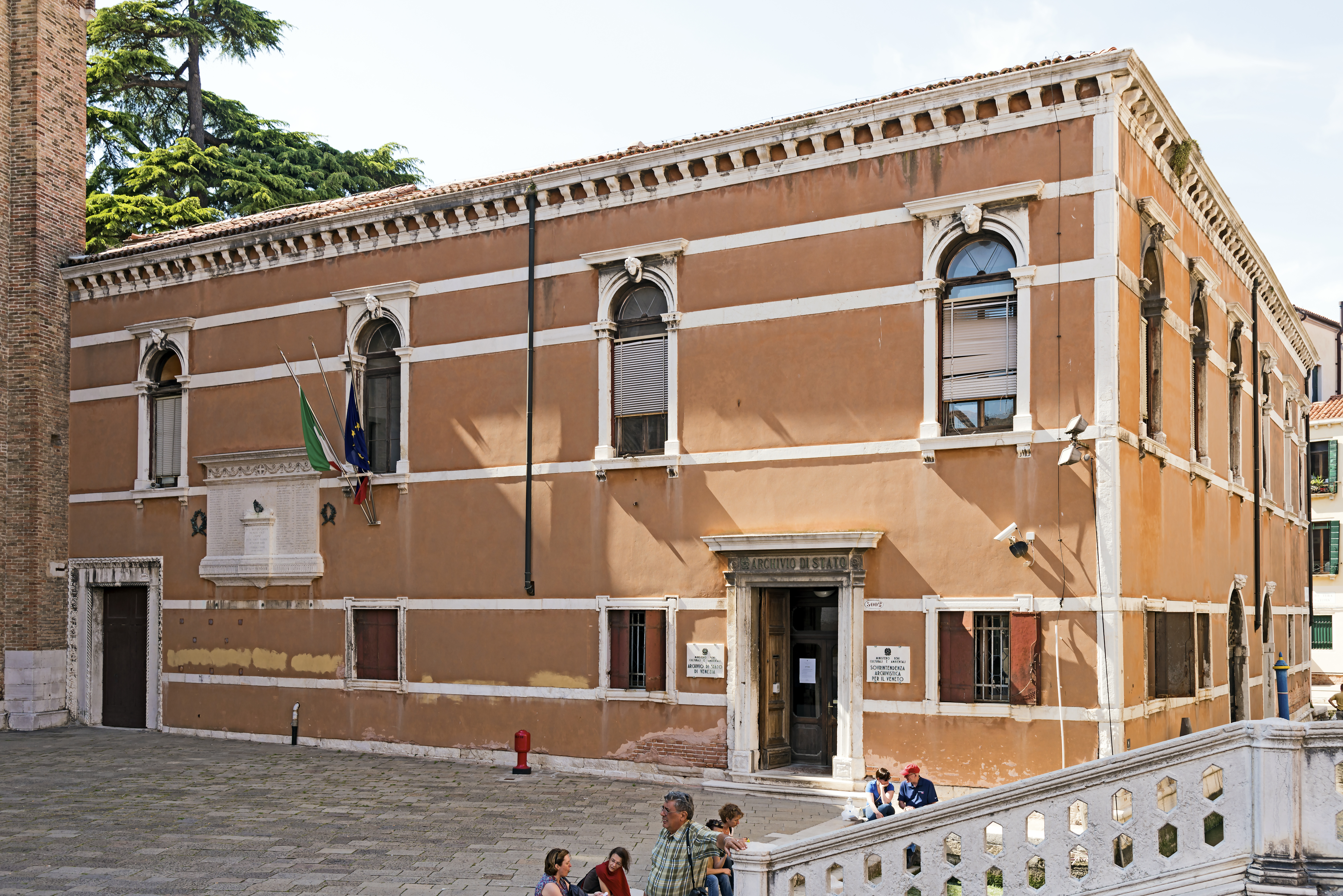 Former convent dei Frari from Campo dei Frari, today access to the State Archives in Venice.